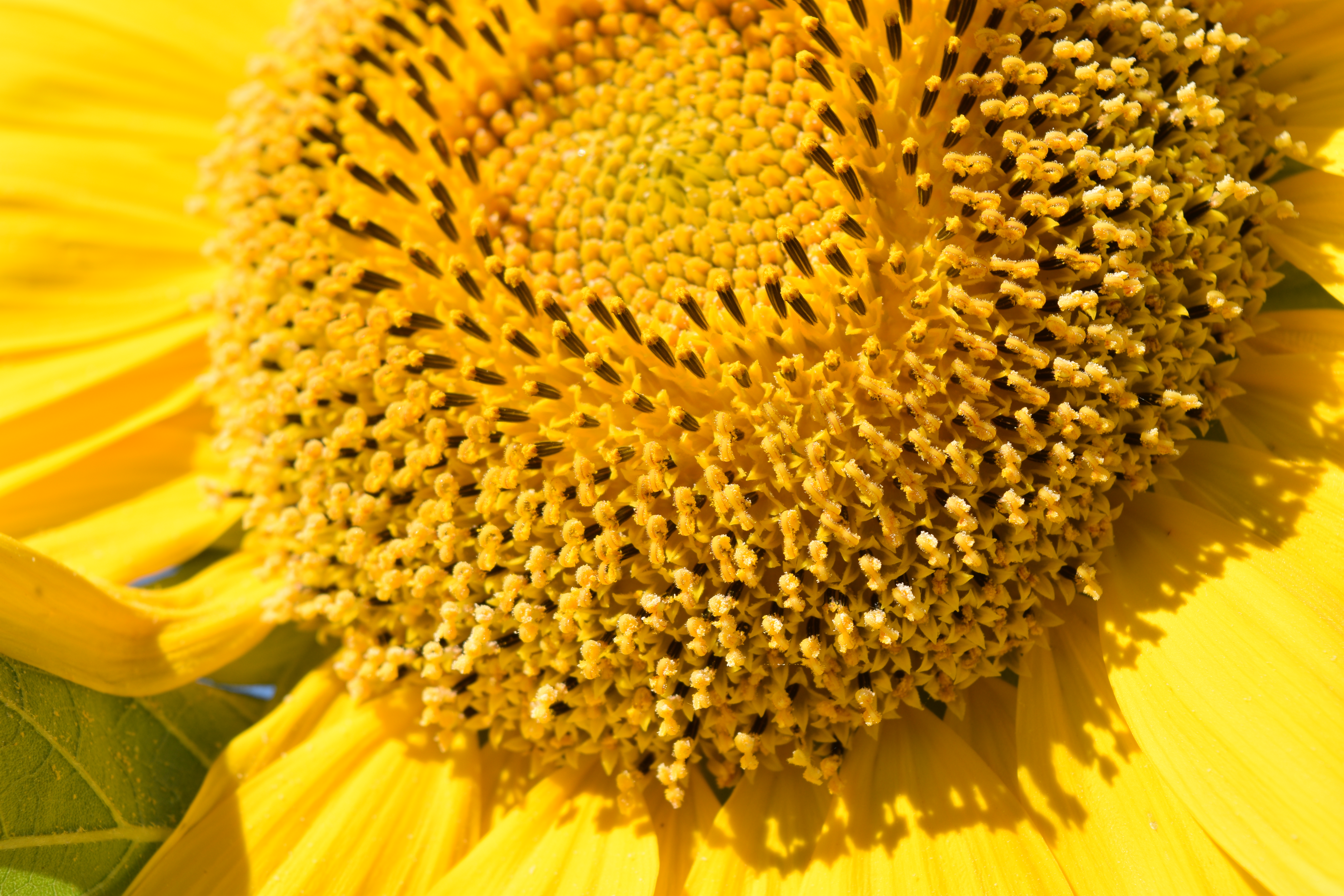 This is a closeup of an unidentified sunflower; taken in Myanmar, Shan state.